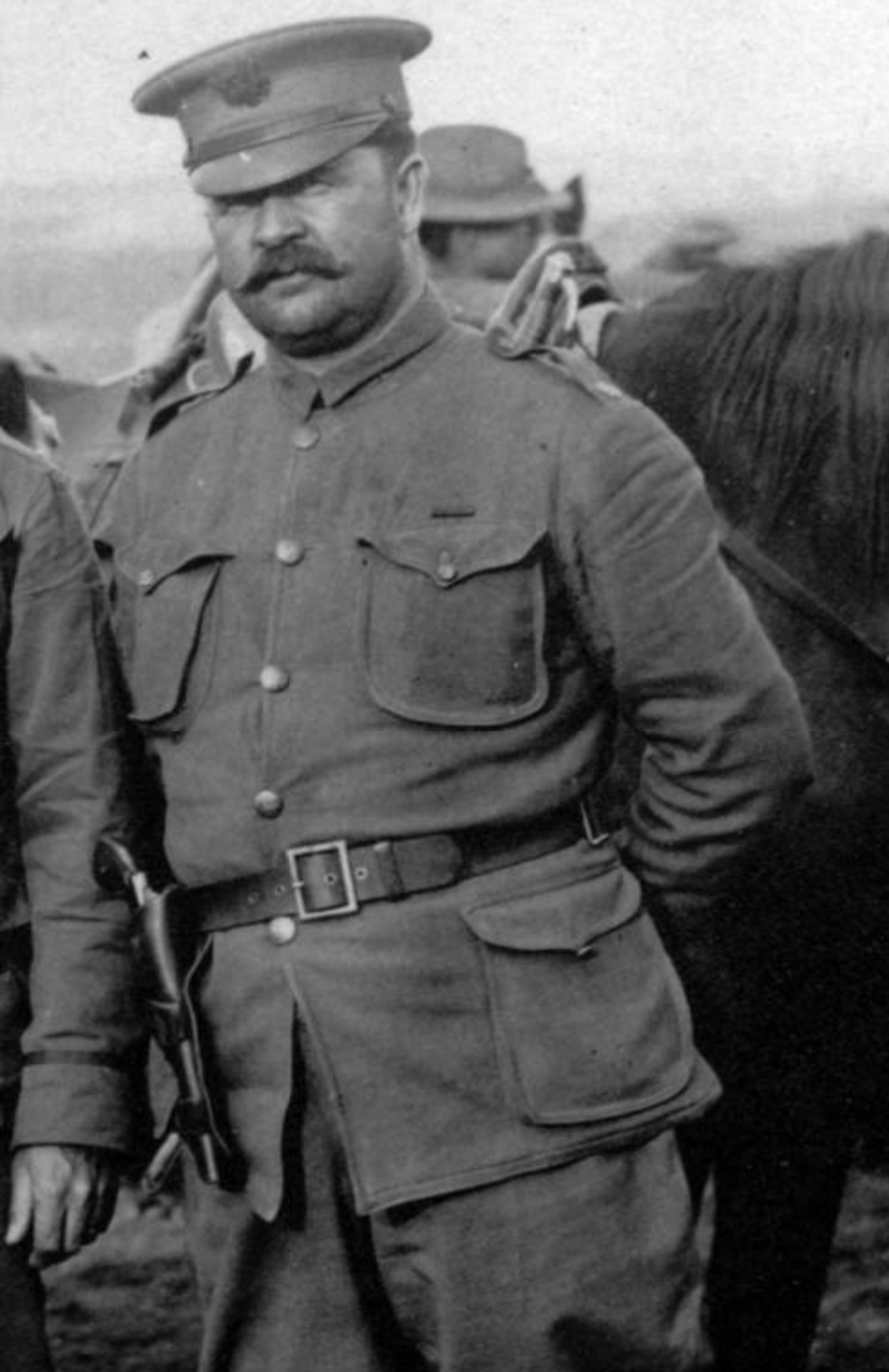 A detail crop of Colorado National Guard Major Patrick J. Hamrock near the Ludlow Colony, 1914. Hamrock served in the Indian Wars and Colorado Coalfield War